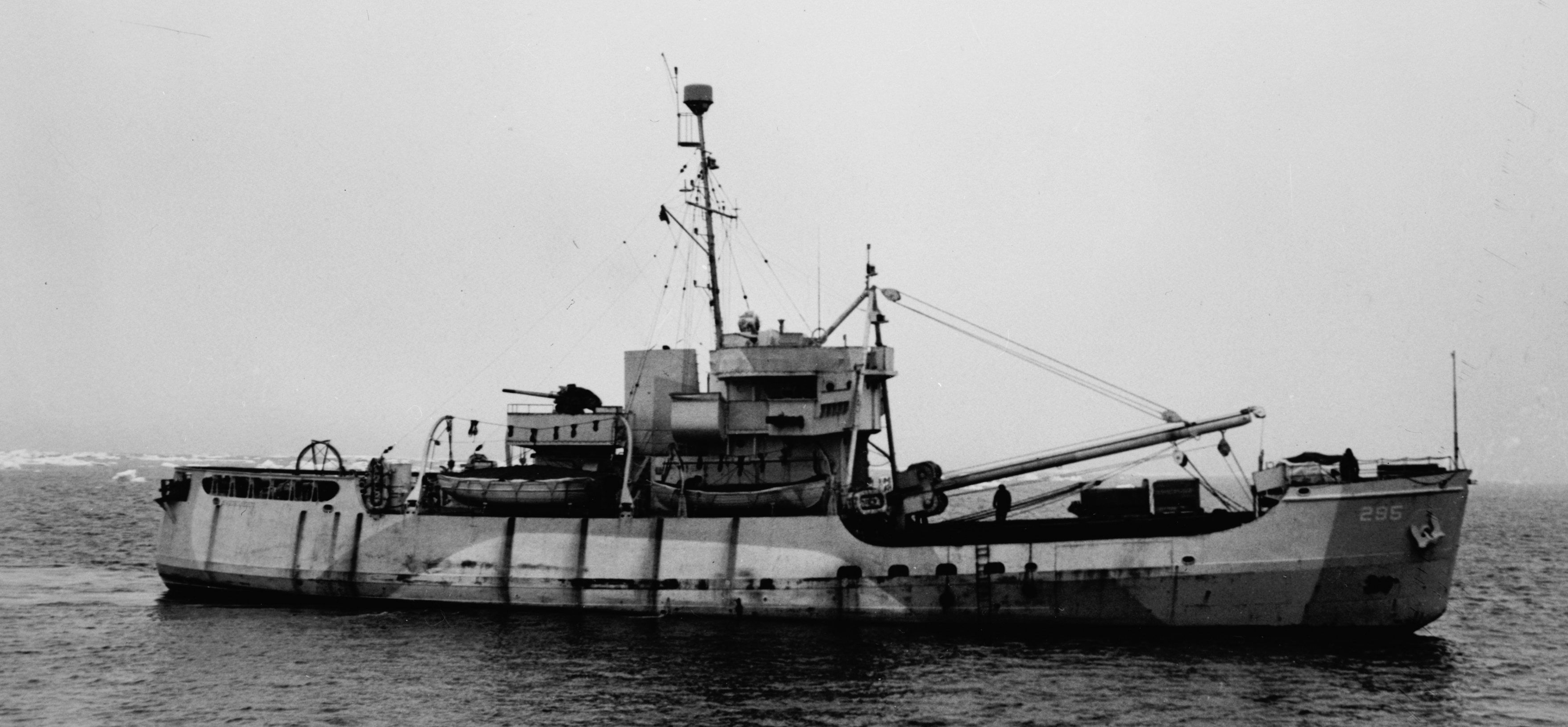 USCGC Evergreen in North Atlantic during World War II in oceanic camouflage paint